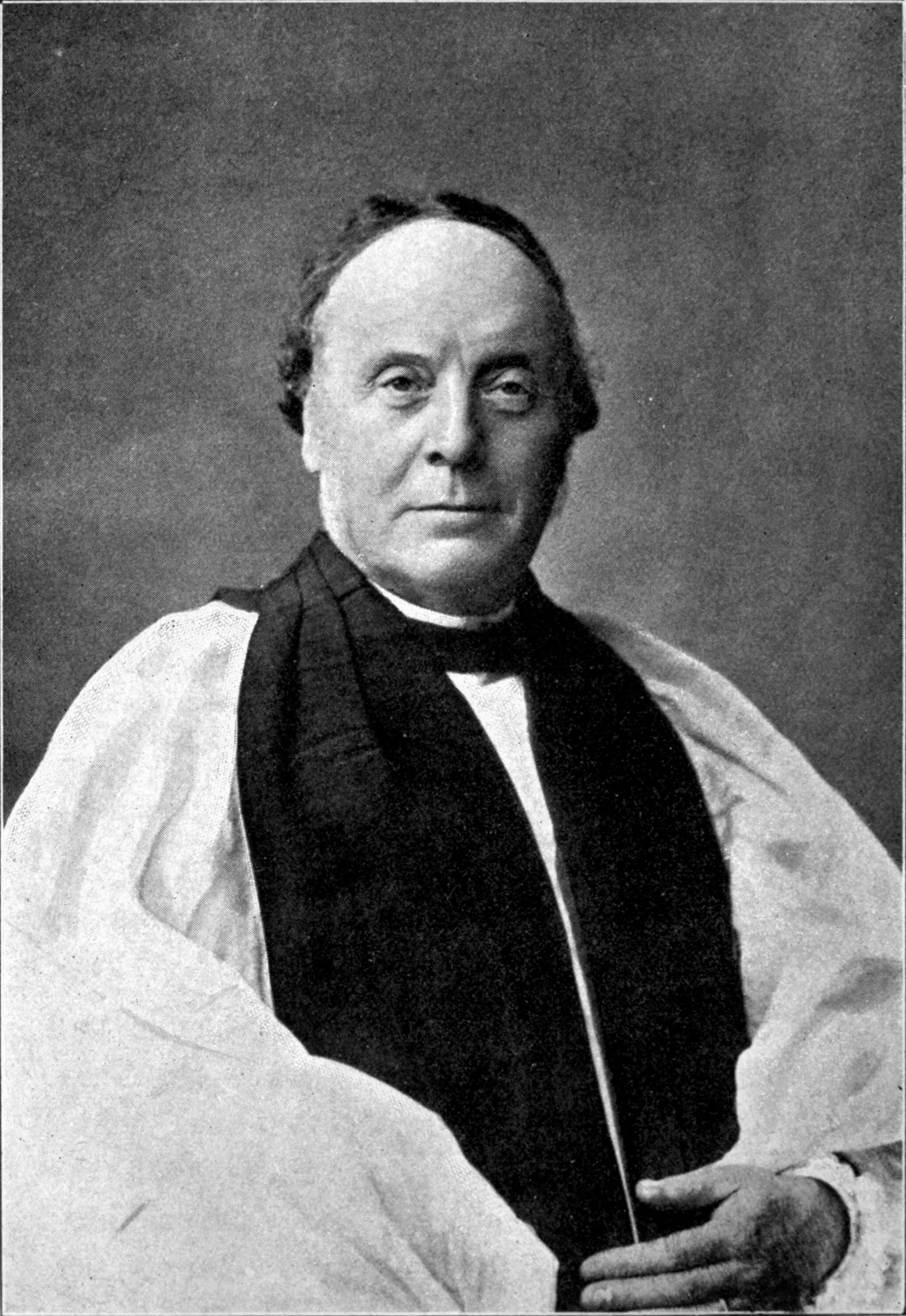 The Right Rev. Alfred Barry, D.D., formerly Bishop of Sydney, Metropolitan of New South Wales and Primate of Australia